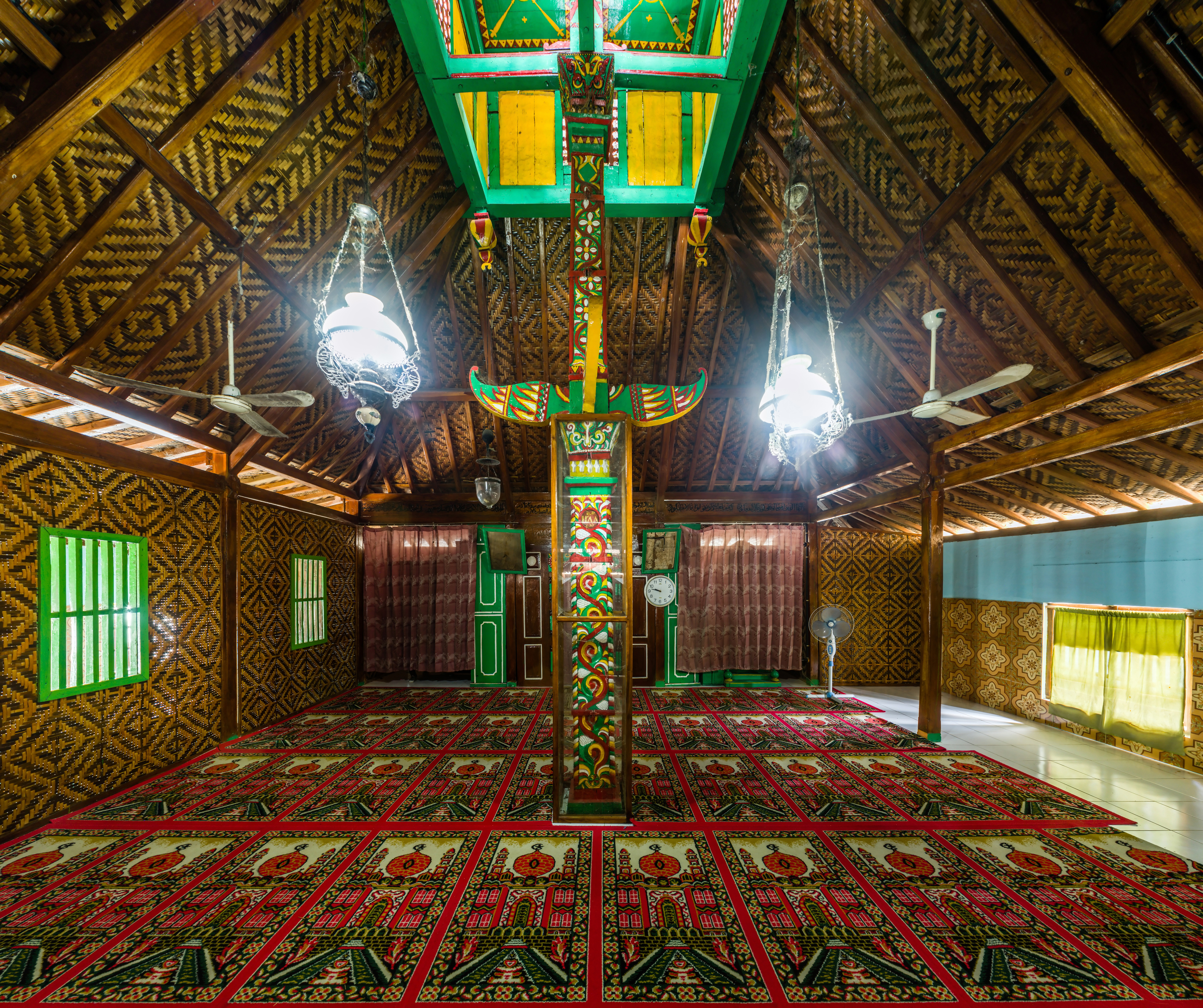 Interior of Saka Tunggal Mosque, Banyumas, 2015-03-22